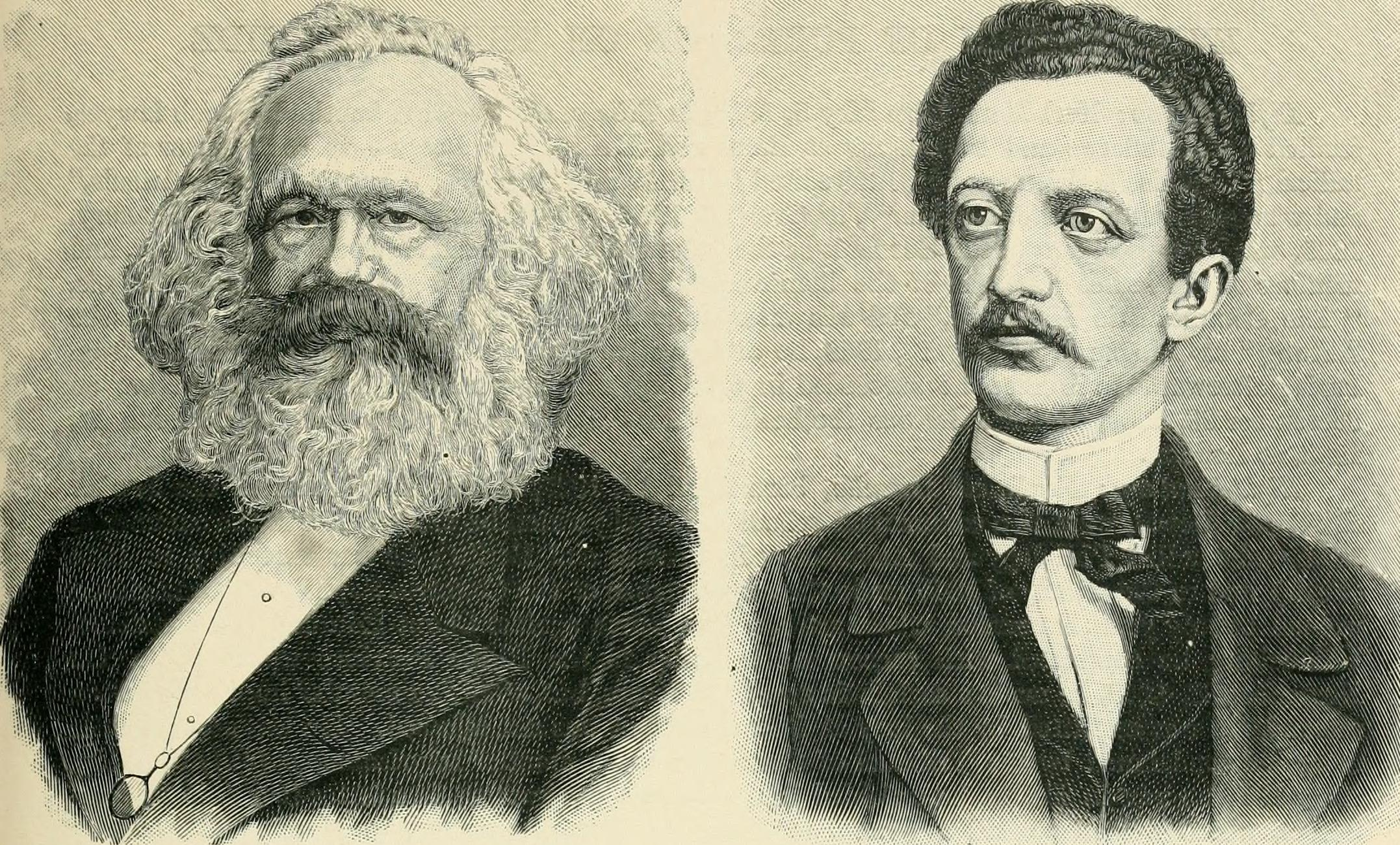 Title: The history of the world; a survey of a man's record Year: 1902 (1900s) Authors: Helmolt, Hans F. (Hans Ferdinand), 1865-1929 Bryce, James Bryce, Viscount, 1838-1922 Subjects: World history Publisher: New York : Dodd, Mead Text Appearing Before Image: s the precise opposite of theanarchy; that is, the increasing organisation of production as co-operative in every,productive establishment. With this lever it destroyed the old peaceful stability.When it was introduced into a branch of industry, it allowed no other method ofwork besides. When it took possession of hand work, it destroyed the old hand work.The field of labour became a battle-grouud. Xot merely did war break out betweenthe individual local producers, but the local wars in turn became national, thecommercial wars of the seventeenth and eighteenth centuries. Wholesale industriesand the establishment of the world market have made the war universal, and atthe same time given it an unprecedented bitterness. Among individual capitalists,as among entire industries and whole countries, the favourableness of the naturalor created conditions of production decide the question of existence. The defeatedis remorselessly disregarded. The opposition between co-operative production and Text Appearing After Image: '